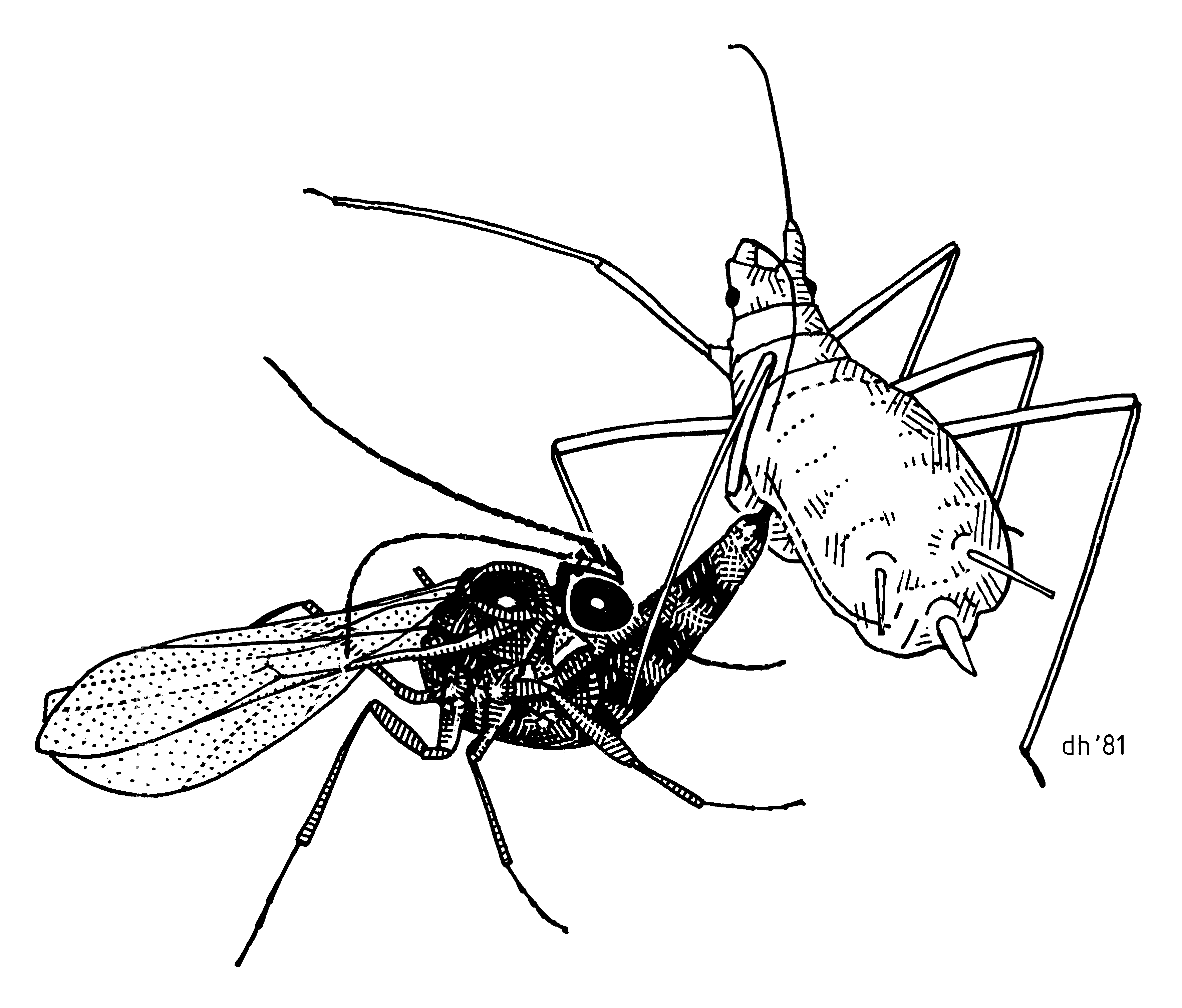 (Hemiptera: Aphididae) Aphidius attacking pea aphid illustrated by Des Helmore.